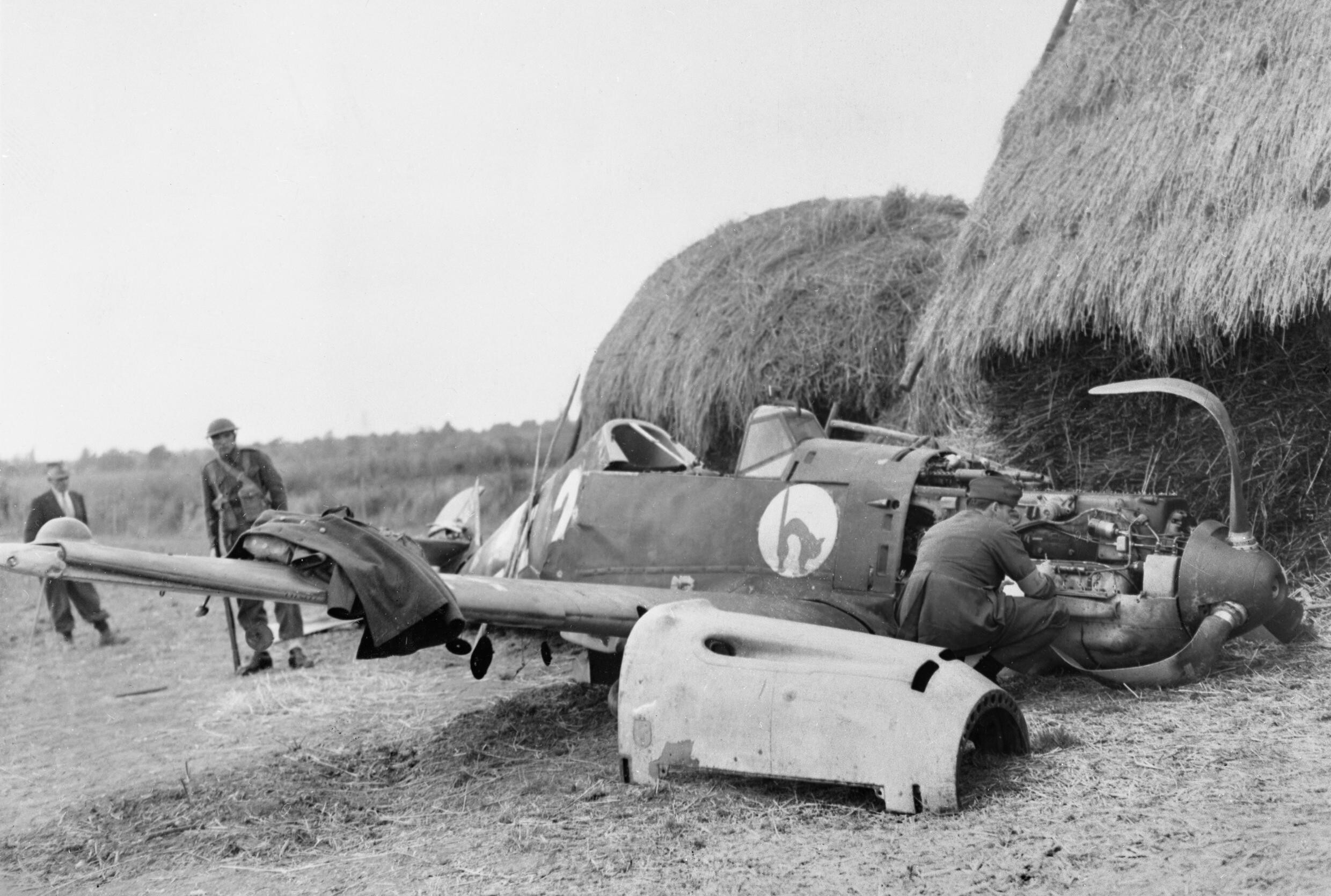 The Battle of Britain Messerschmitt Bf 109E-1 (W.Nr. 3465) 'White 2' of 4./JG 52, flown by Feldwebel Paul Bosche, which force-landed on Little Grange Farm, Woodham Mortimer, Essex on 8 October 1940.